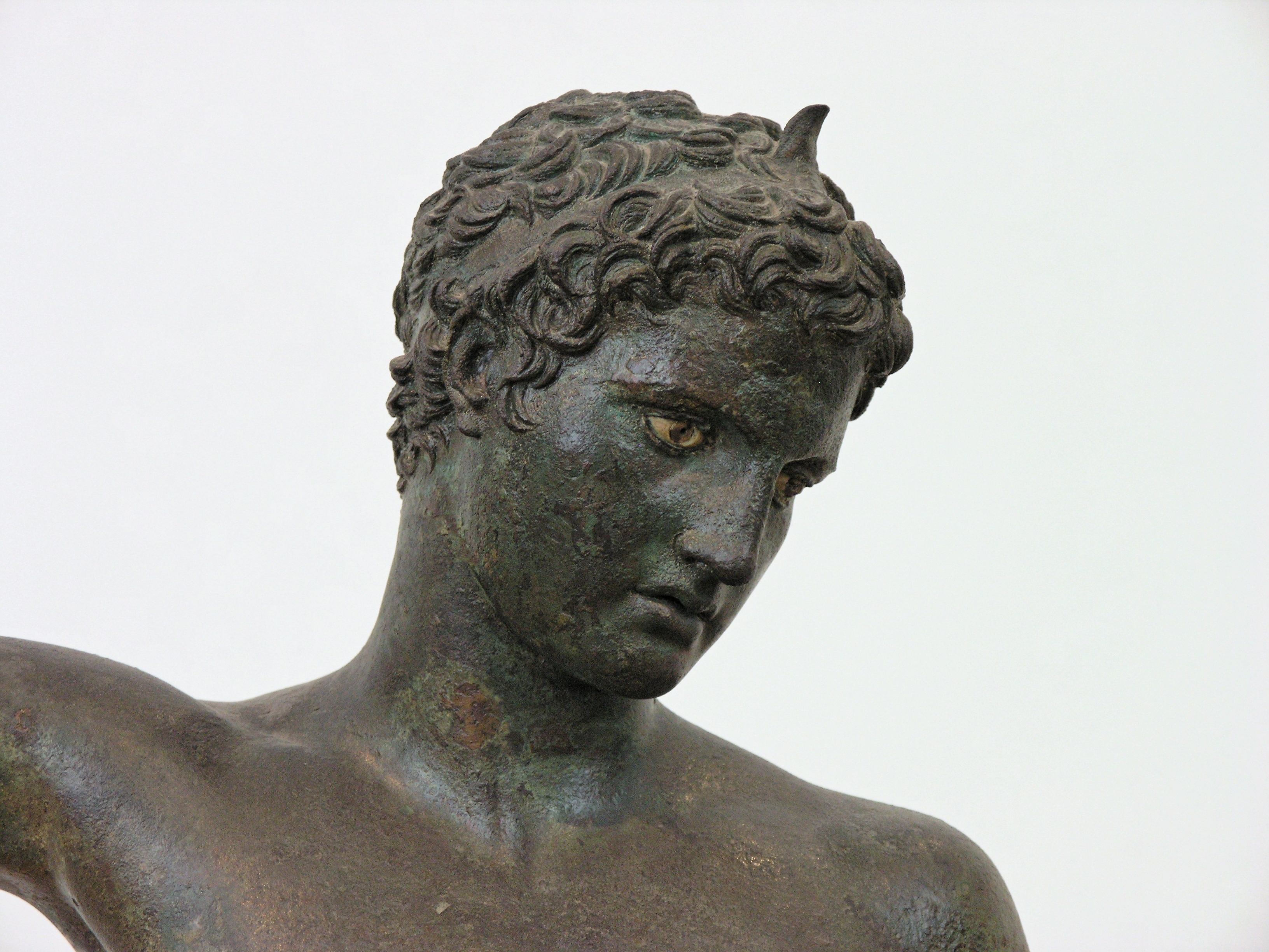 Marathon Youth or Ephebe of Marathon. Bronze statue of a young athlete, found in the sea near Marathon (Attic coast). The left hand was replaced at a later date by another shaped as a lamp. Work of the Praxiteles school, ca. 340-330 B.C.